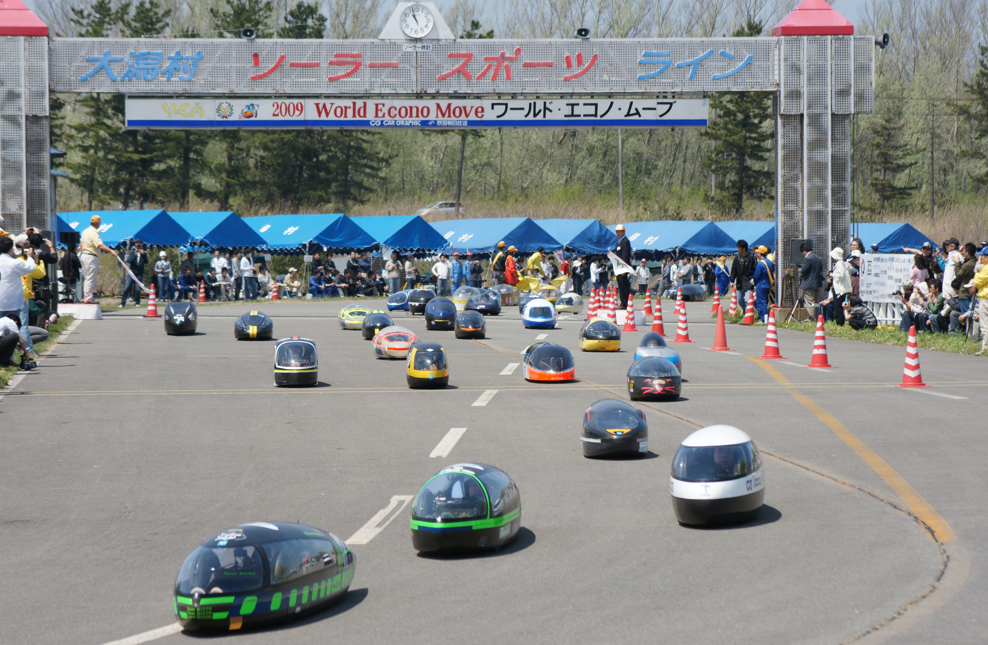 Start scene of 2009 World Econo Move in Japane. The World Econo Move is one of the competition for energy saving cars.